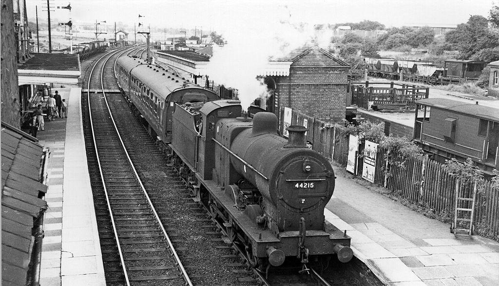 Wellingborough (London Road) Station, with a Peterborough - Northampton train. View NE, towards Thrapston and Peterborough; ex-London & North Western Northampton (Castle) - Peterborough (East) line. The train is the 16.00 from Peterborough East, headed by LMS 4F 0-6-0 No. 44215.